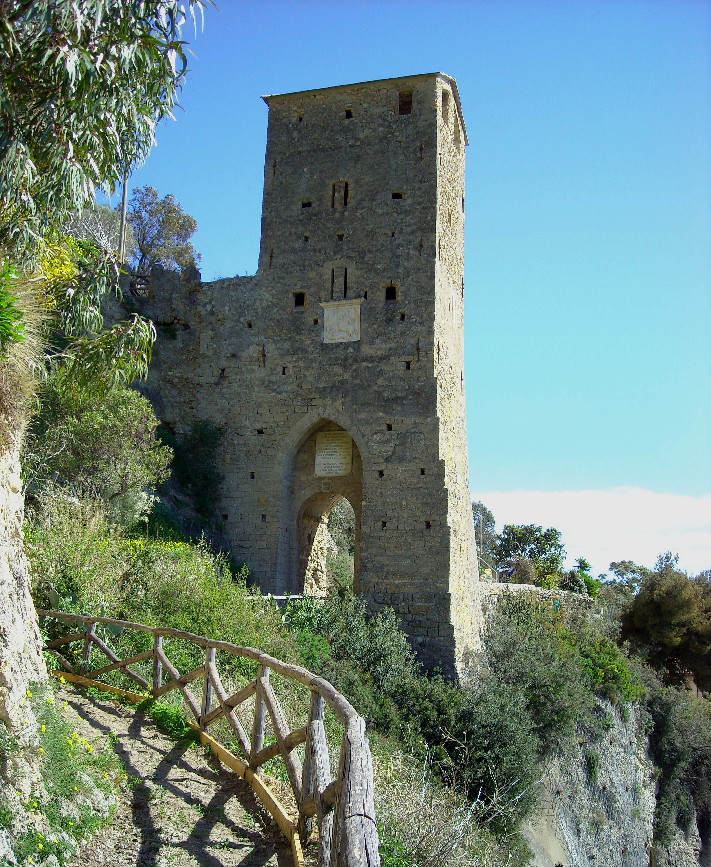 View of the side west of the majestic Canarda door, built in the XIII th century, outside of walls of town-walls of Ventimiglia, constructed on the ancient tracing of the way via Julia Augusta that carried in Gallia.